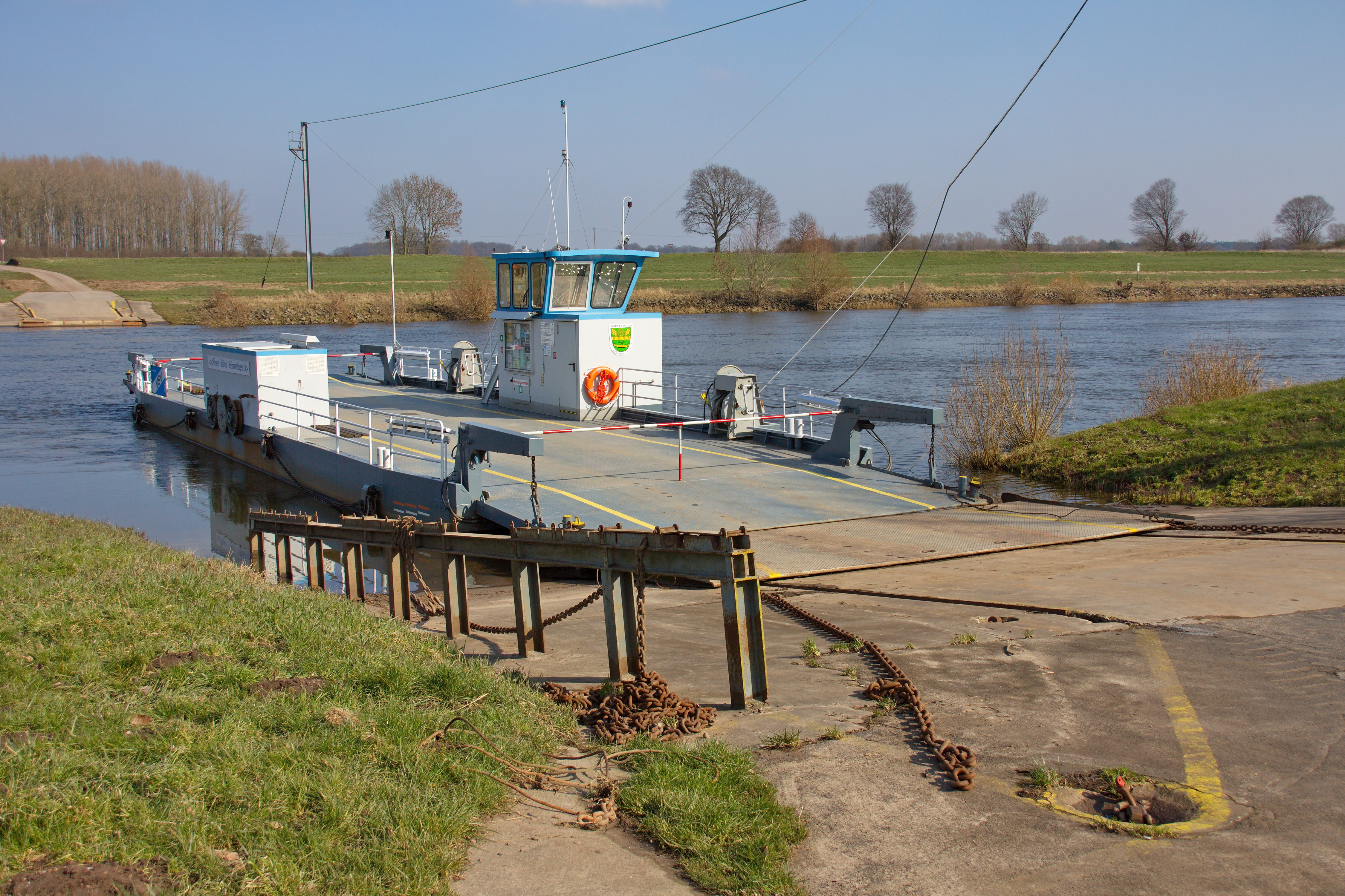 Weserfähre Schweringen-Gandesbergen (Schweringen), Niedersachsen, Deutschland.. Die Geschichte der letzten Gierseilfähre an der Mittelweser reicht bis in das 16. Jahrhundert.